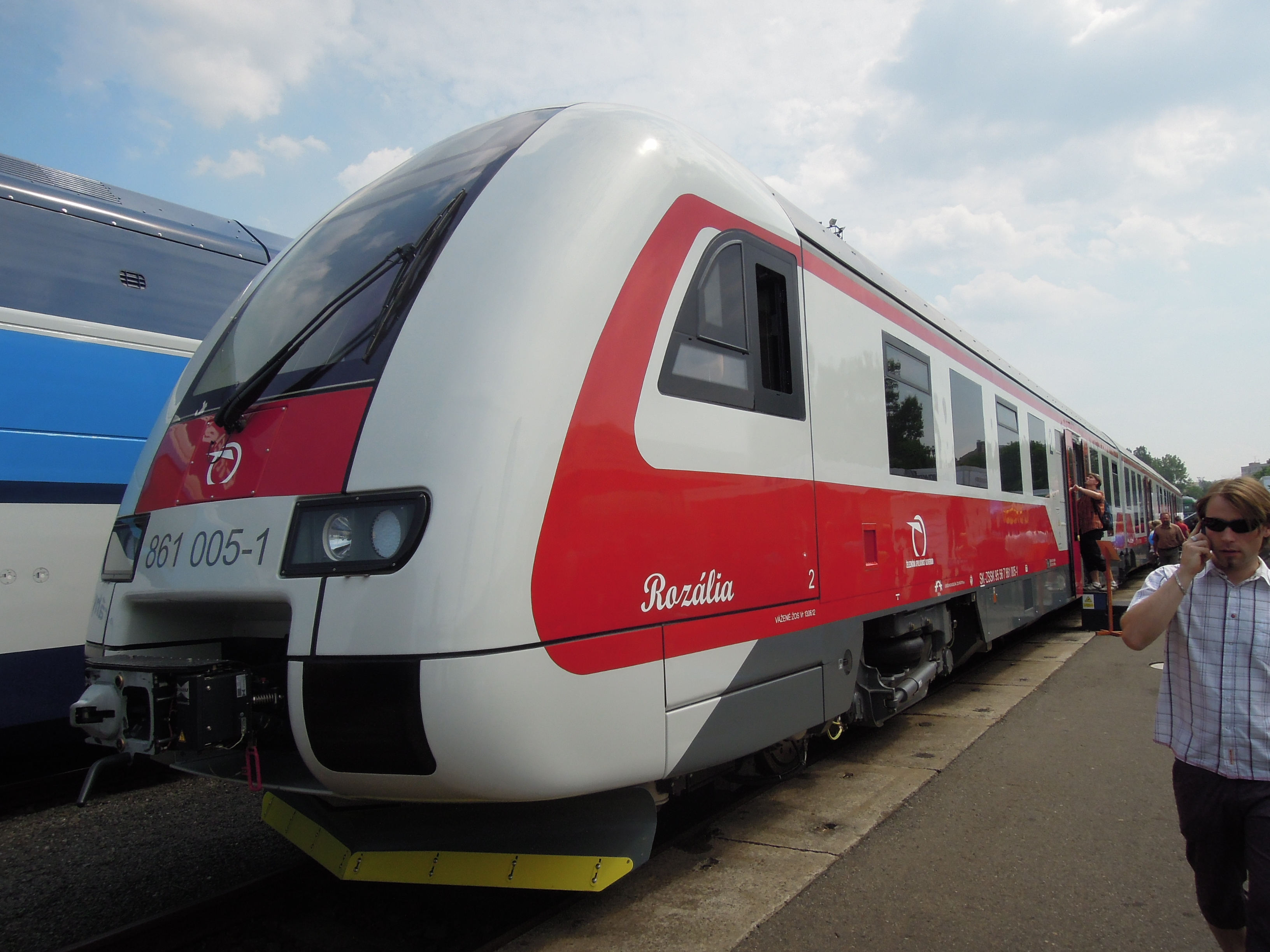 Diesel multiple unit class 861 of ZSSK at the Czech Raildays 2012 trade fair in Ostrava, Czech Republic